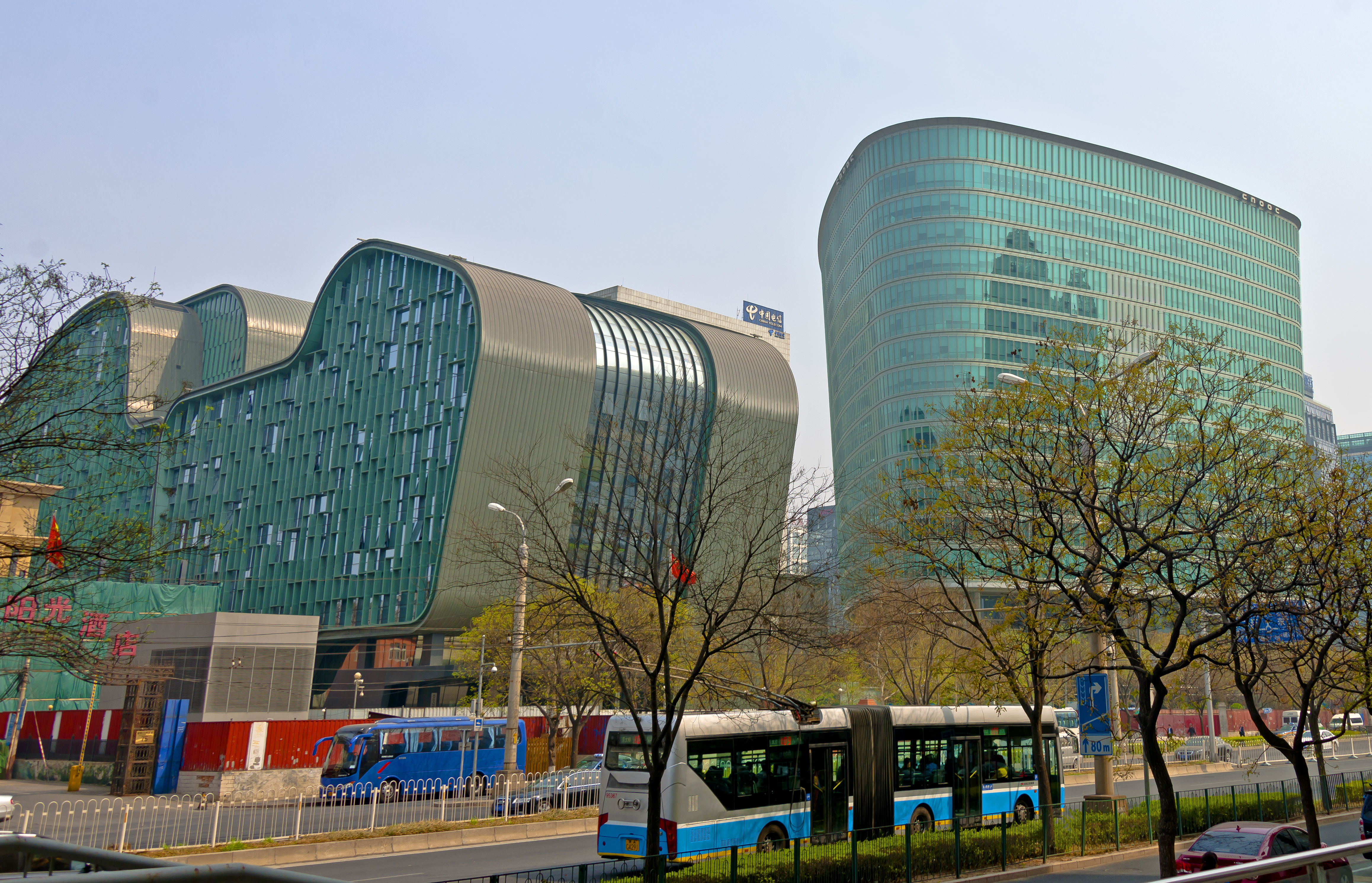 China National Offshore Oil Corporation (CNOOC) headquarters building (on right), designed by Kohn Pedersen Fox, in Chaoyangmen neighborhood of Beijing.